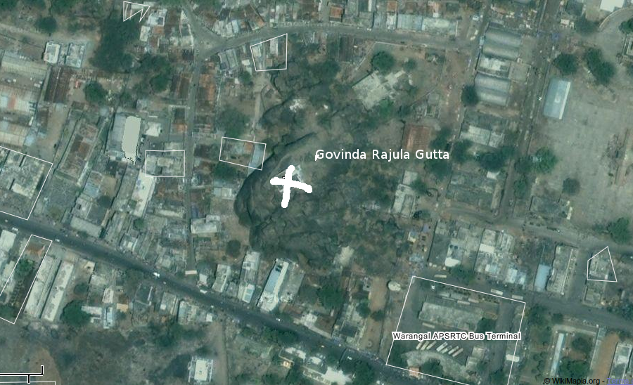 This is where GR gutta lies. beside, Warangal Bus-stand and Railway station